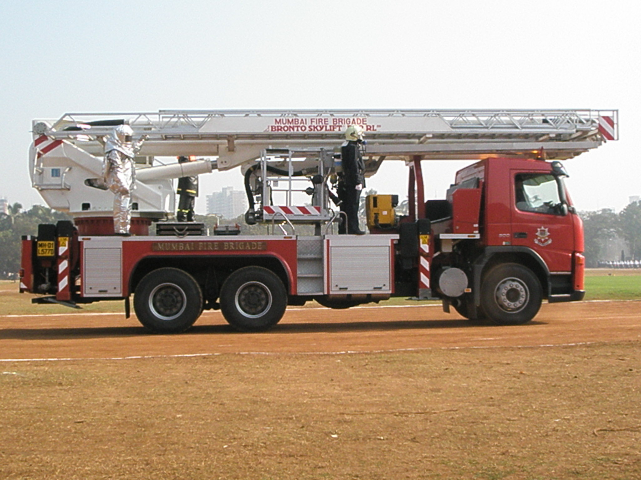 Mumbai Fire Depts Bront Sky lift fitted on Volvo Truck